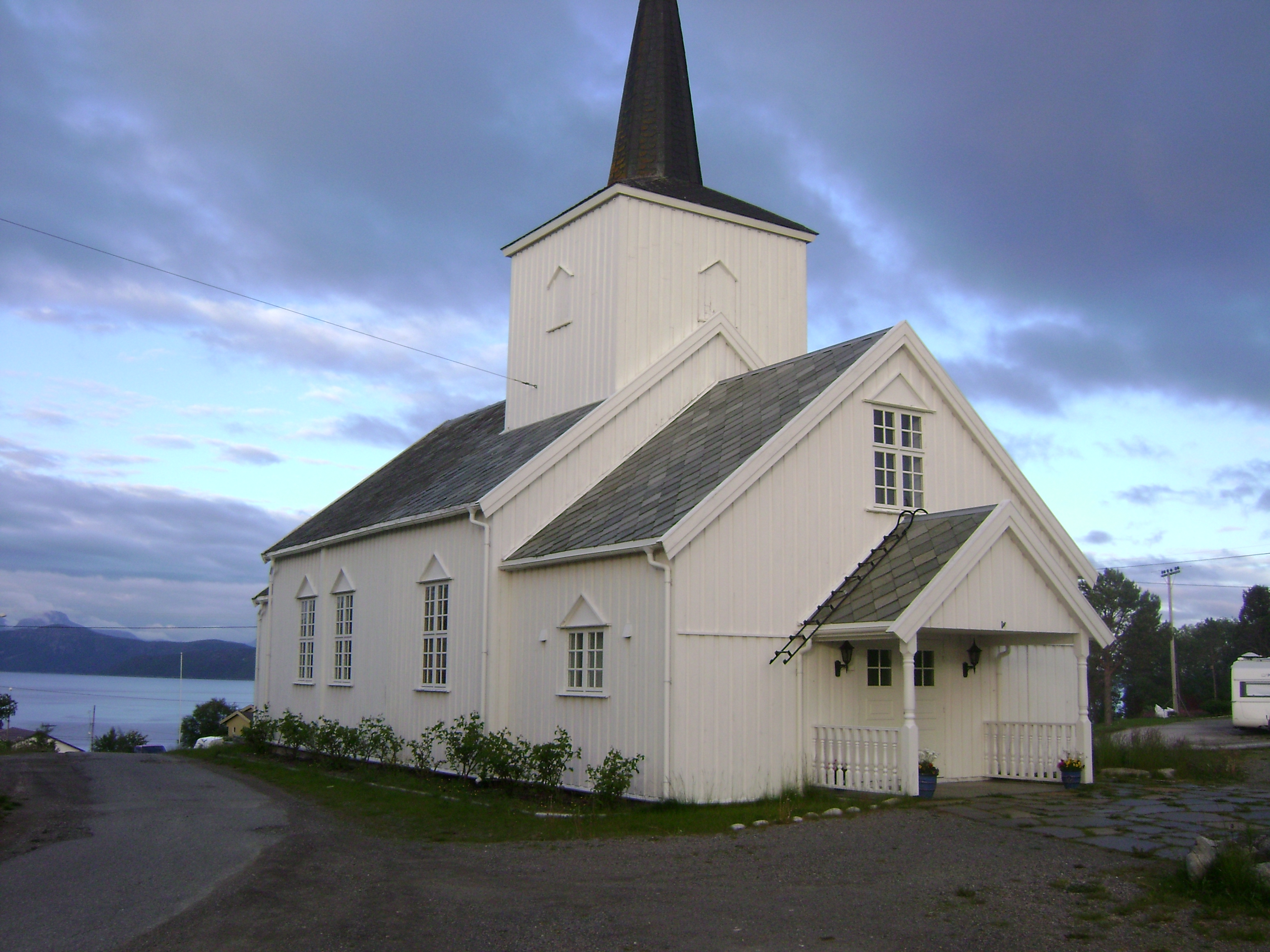 Korsnes church in Tysfjord county, Nordland